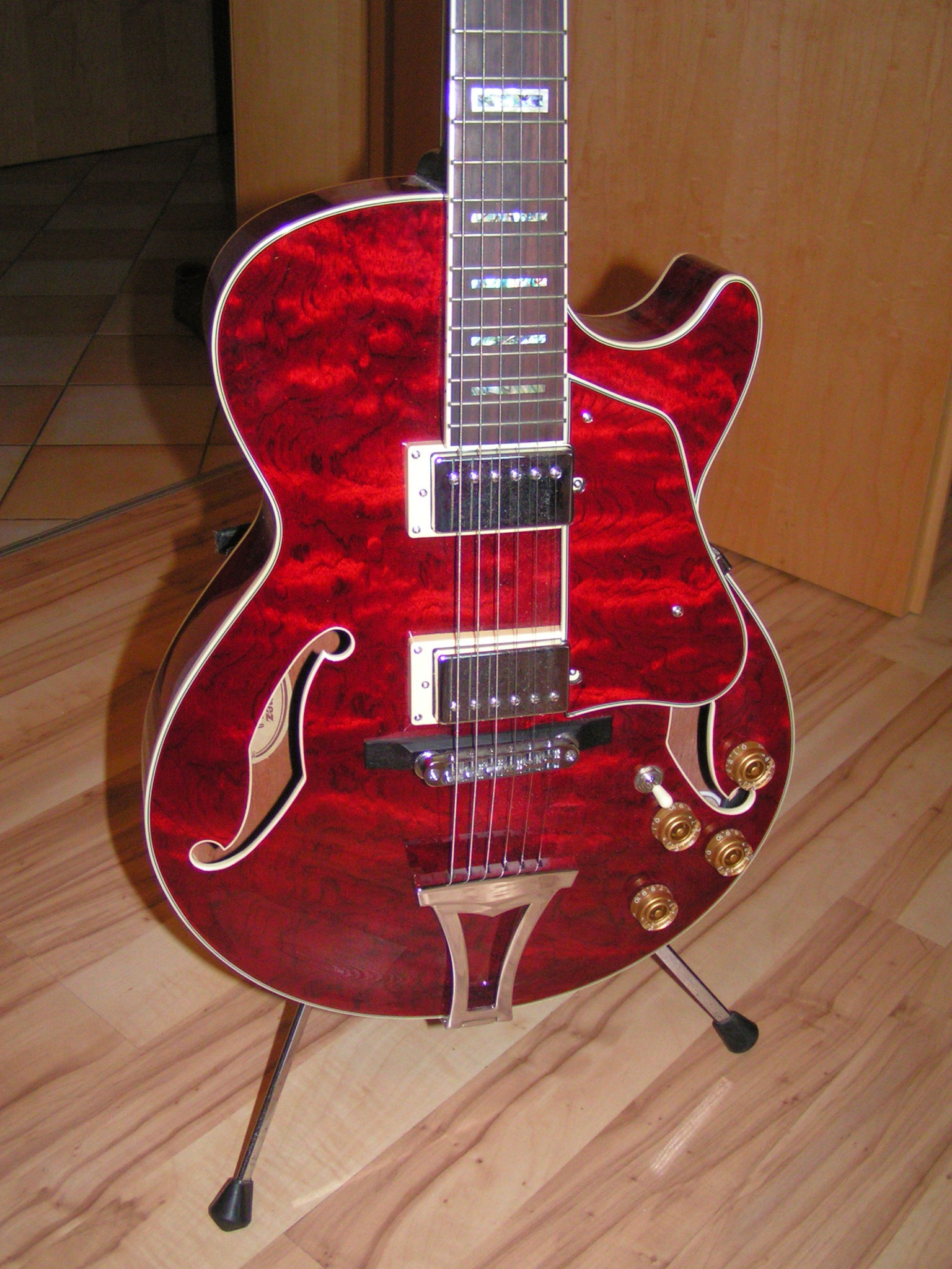 Ibanez Artcore AG85 ARTCORE CUSTOM AG models AG85 TRD * 3pc Artcore Mahogany/Maple neck * Figured Bubinga top/back/side * Small frets * ART-1 bridge * VT50 tailpiece * ACH1 neck pu * ACH2 bridge pu * depth: 70mm at tail * color: TRD References "Artcore Series" in Ibanez 2005 Catalog, Hoshino Gakki Group, p. 33